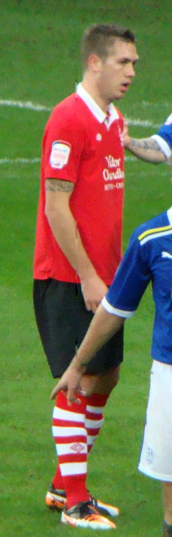 Luke Chambers